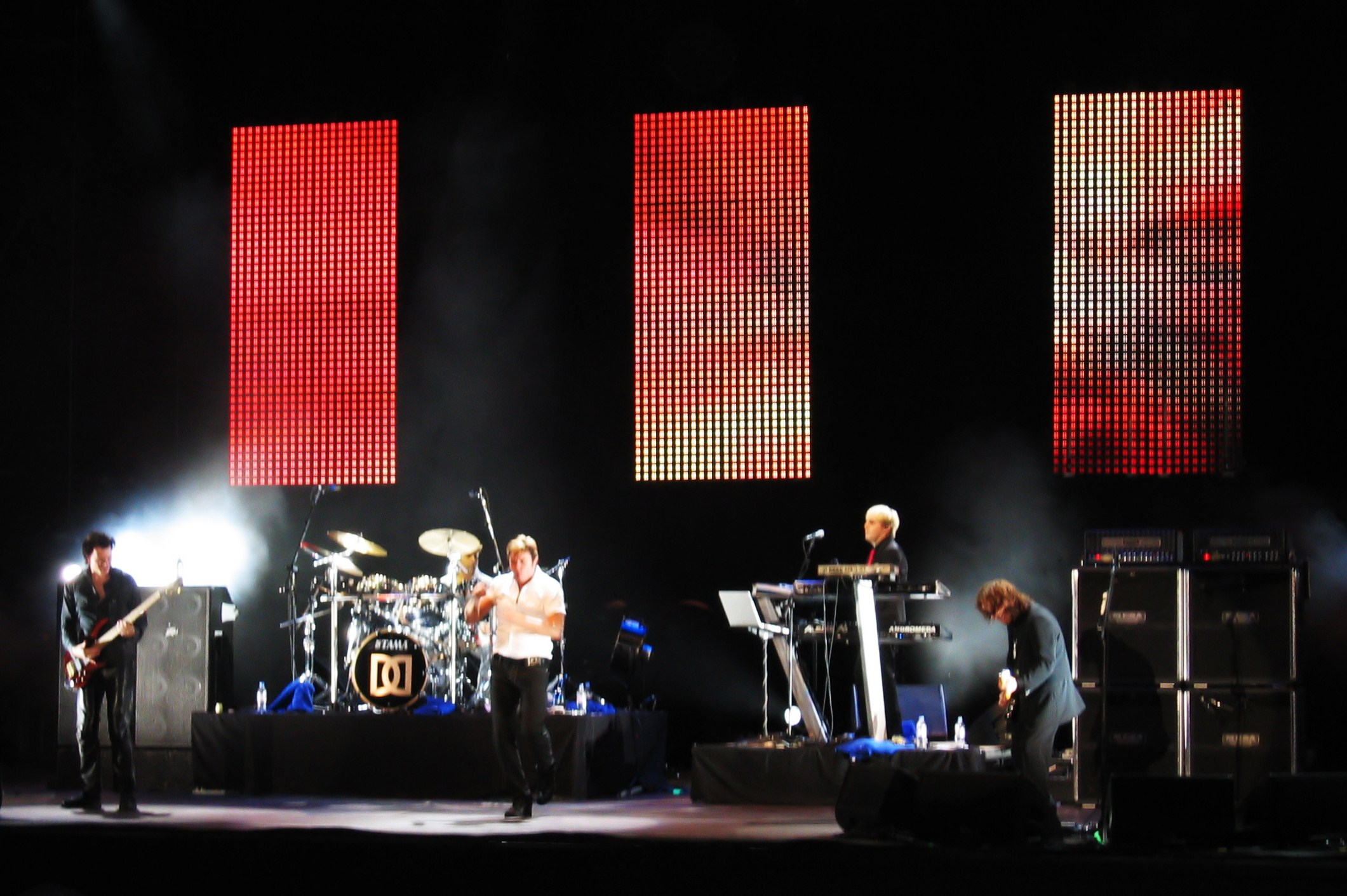 Duran Duran live in Verona (Italy).